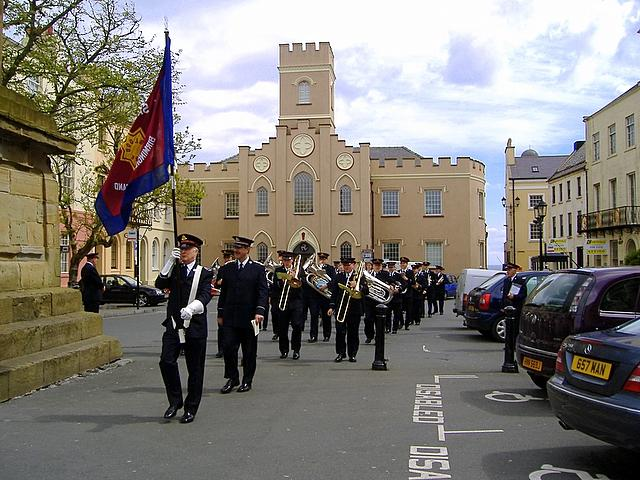 Birmingham Citadel Band, Castletown, Isle of Man. The Salvation Army band entering Castletown square at the start of a three day visit to the Island. In the background is the old St Marys church, now offices.